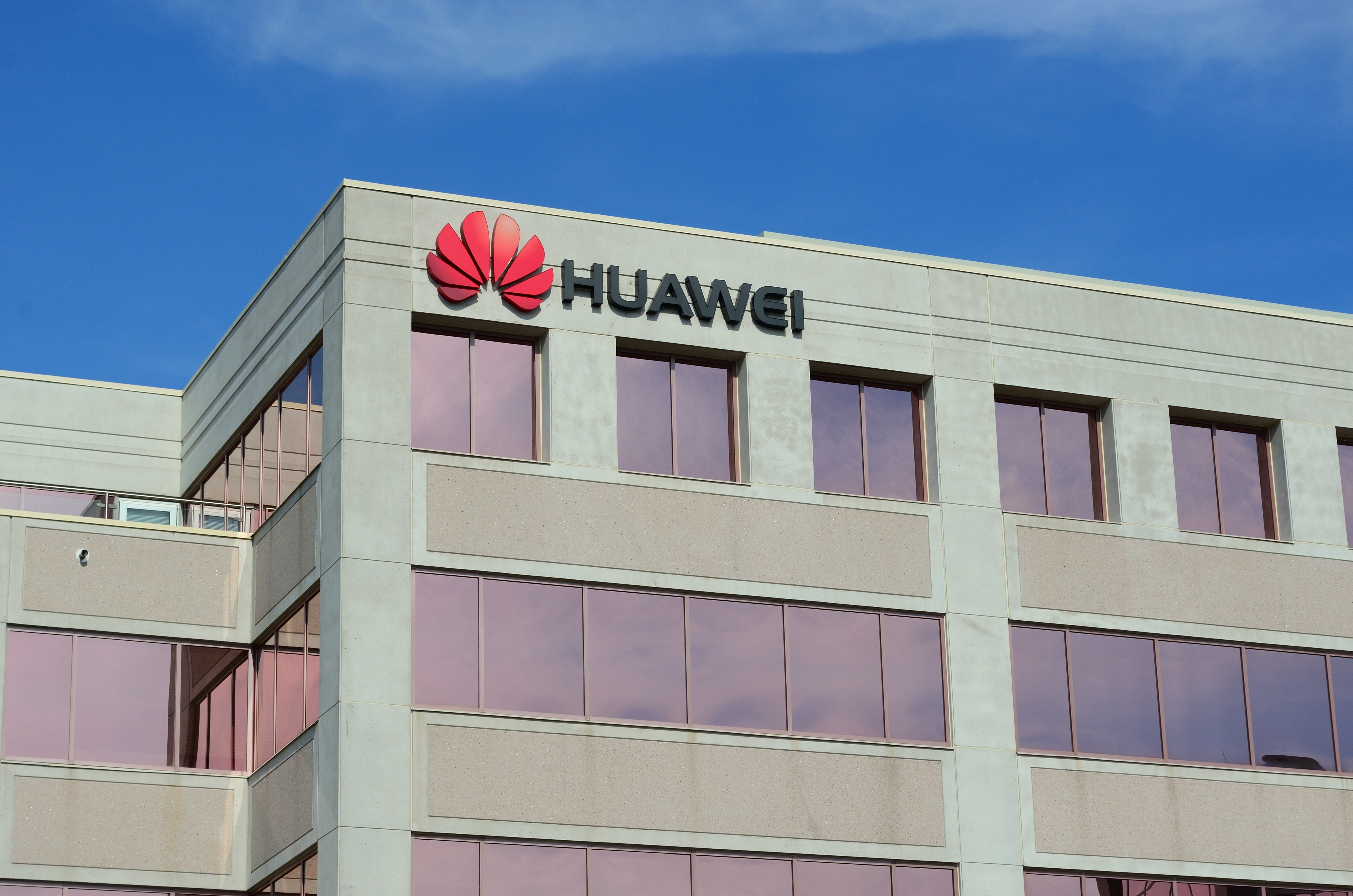 Huawei Canada